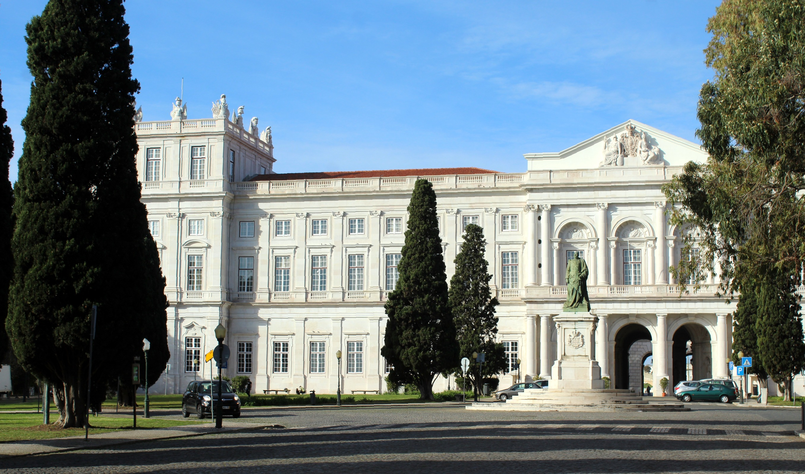 Lisbon, the Palácio Nacional da Ajuda